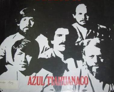 Markama. Folk group. Argentina.